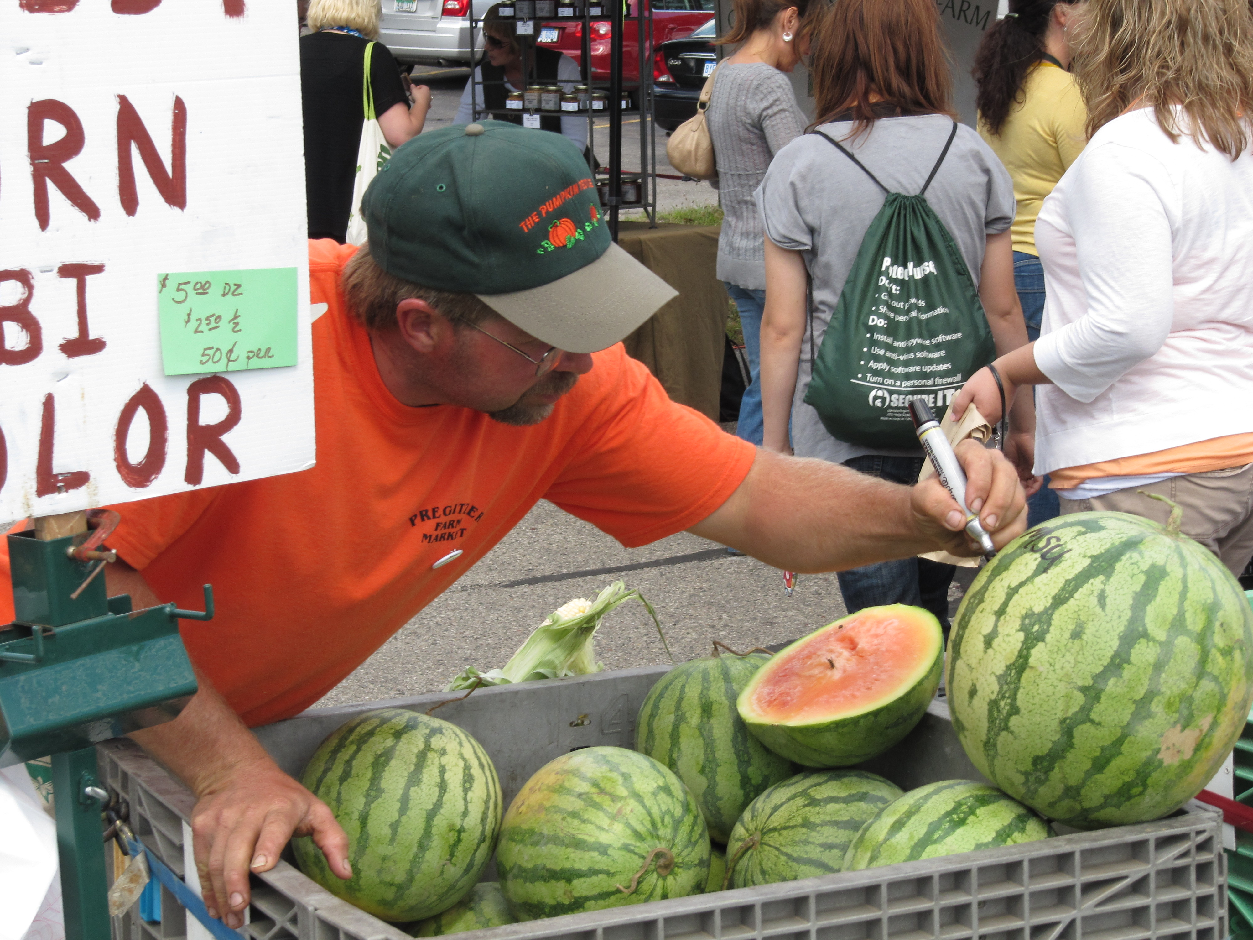 A farmer/vendor marking prices on melons, Lansing Farmers Market, Michigan, September 2010 - Photograph by Patty Mooney of San Diego, California